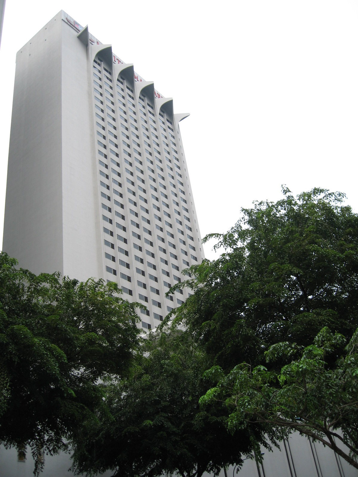 Meritus Mandarin Singapore South Tower.